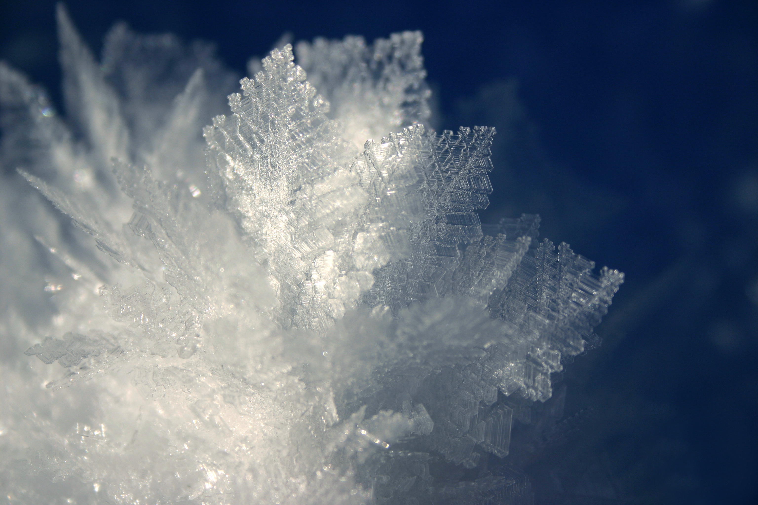 Frost, Ice crystals, Lajoux, Jura, France